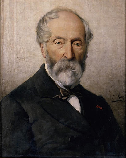 Depicted person: Alexandre Debelle